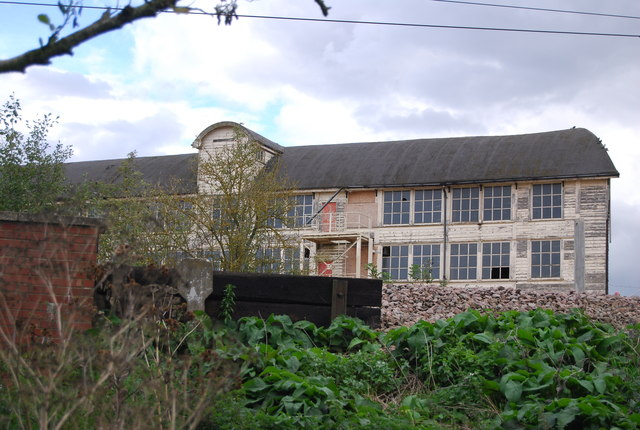 Warehouse, Fisons Works (Destroyed by fire in 2019).